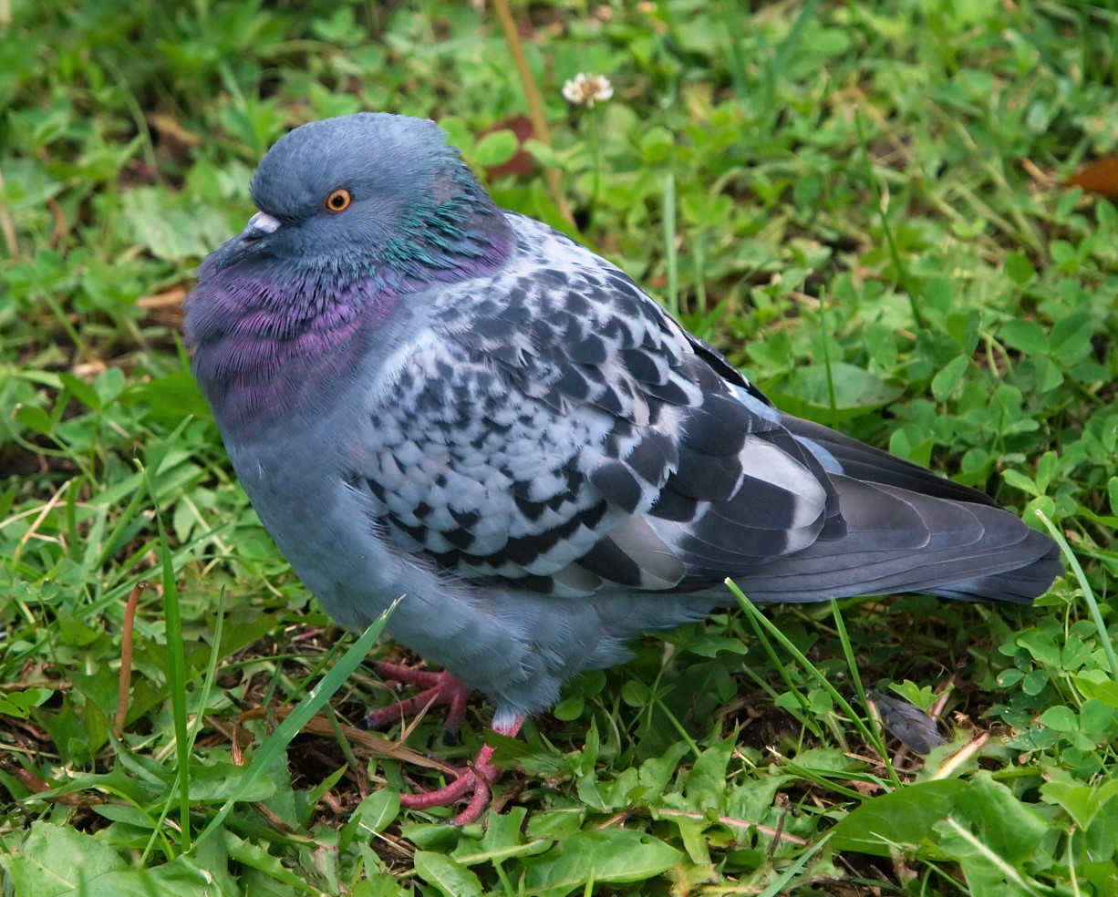 Сommon-coloured pigeon in a large colony feeding near Tikhvin church, Moscow